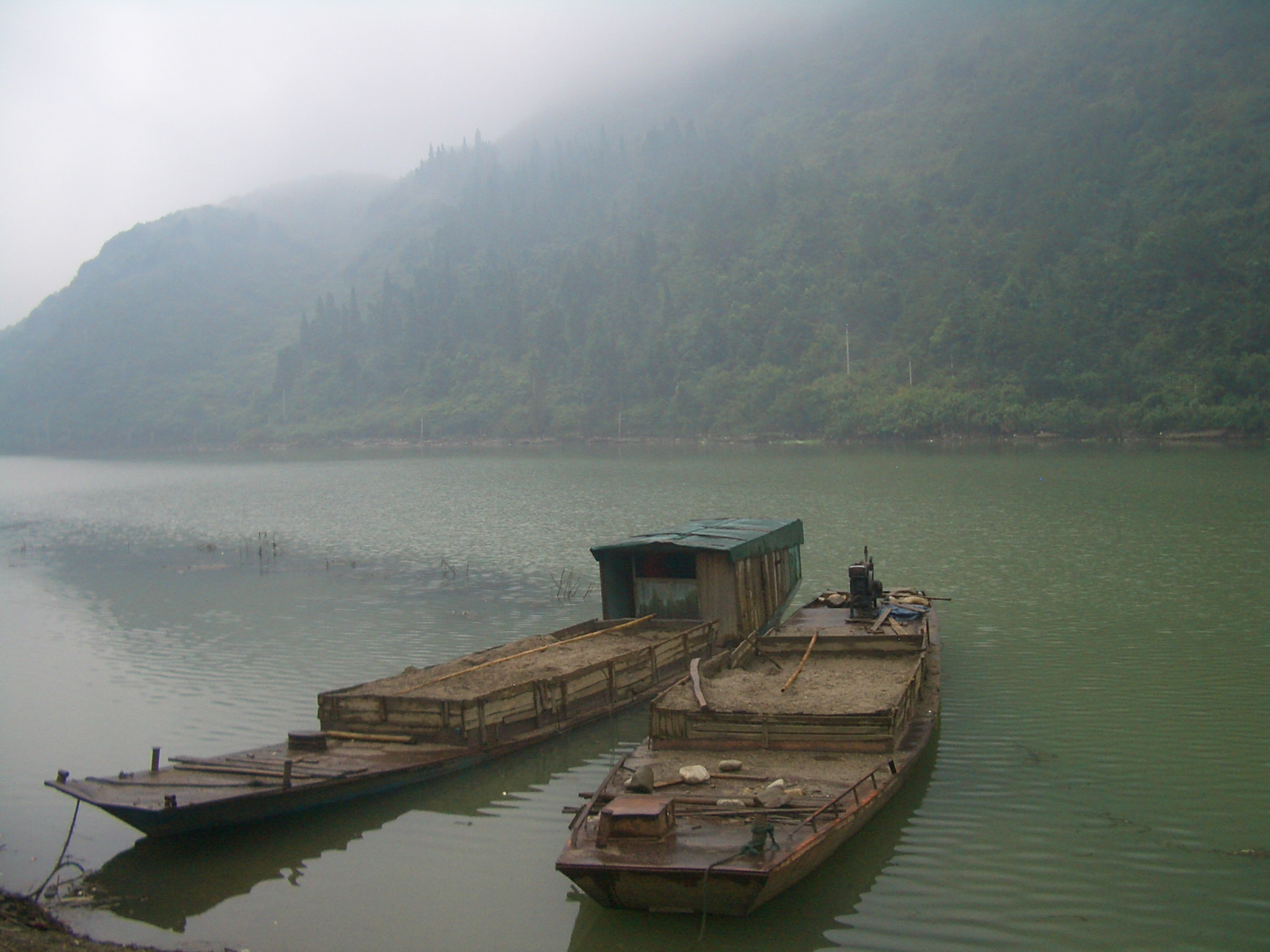 Boats used to ferry sand/gravel derdged from the bottom of a lake (the Hengshi River bay of the Fushui Reservoir) to a makeshift dock on the side of Highway G106. Picture taken in Tongshan County, between Tongshan town and Hengshitan (Jiugangshan) Zhen.